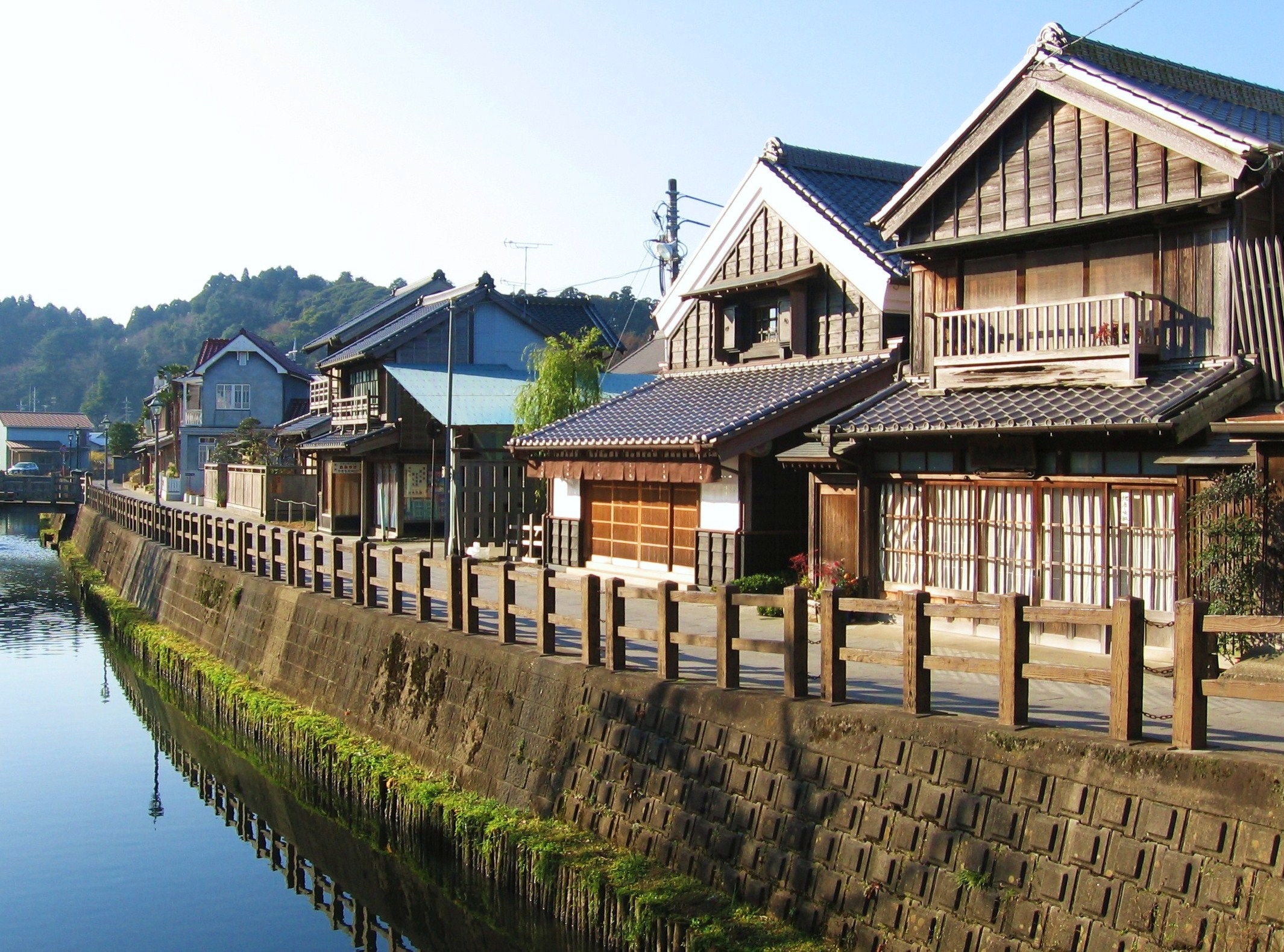 Sawarahonmachi in Katori City, Chiba Prefecture, Japan